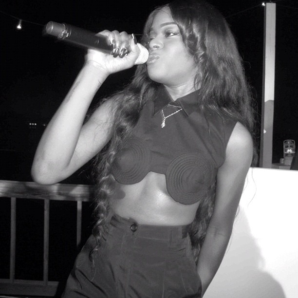 Azealia Banks performs at Art Basel in Miami Beach 2012